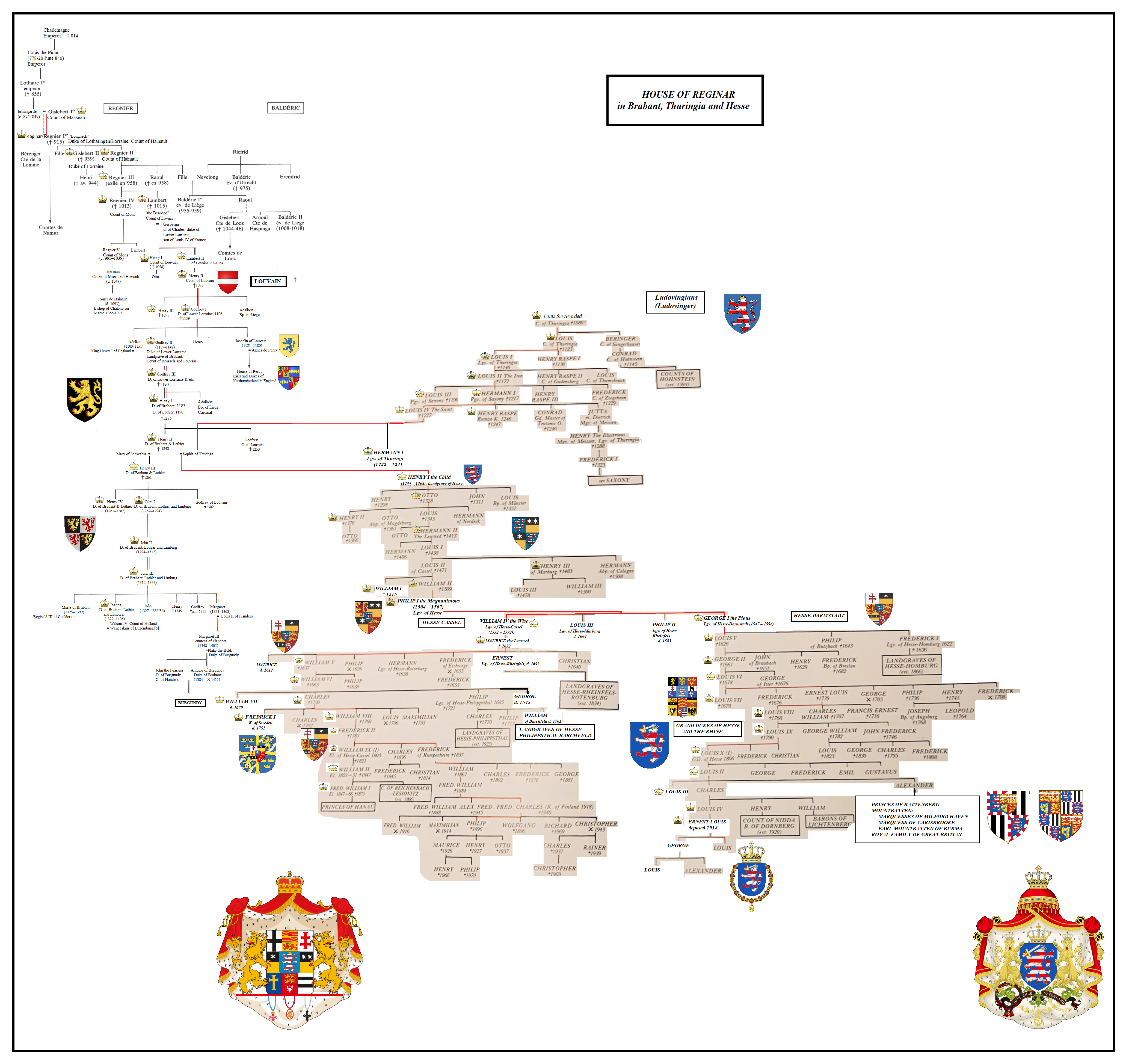 Genealogical Tree Stambaum of the House of Reginar in Brabant (Dukes), Counts of Louvain, Langraves of Thuringia and Landgraves, Electors and Grand Dukes of Hesse